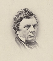 John Minor Botts, U.S. Representative from Virginia, 1839-43 and 1847-49.